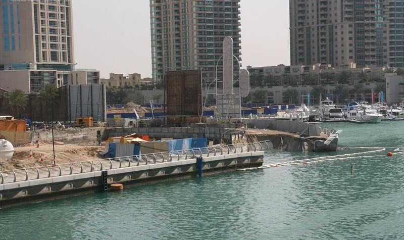 This is a photo showing the Infinity Tower's plot in Dubai Marina in Dubai, United Arab Emirates on 8 February 2007. The plot was flooded the day before due to the collapse of the wall seperating the plot and the water in Dubai Marina.